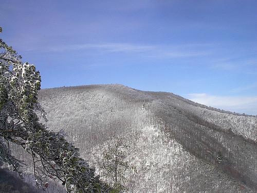 Big Frog Mountain within Big Frog Wilderness in the U.S. state of Tennessee. Uploaded to Flickr by user Kevin Eldon on December 24, 2005.